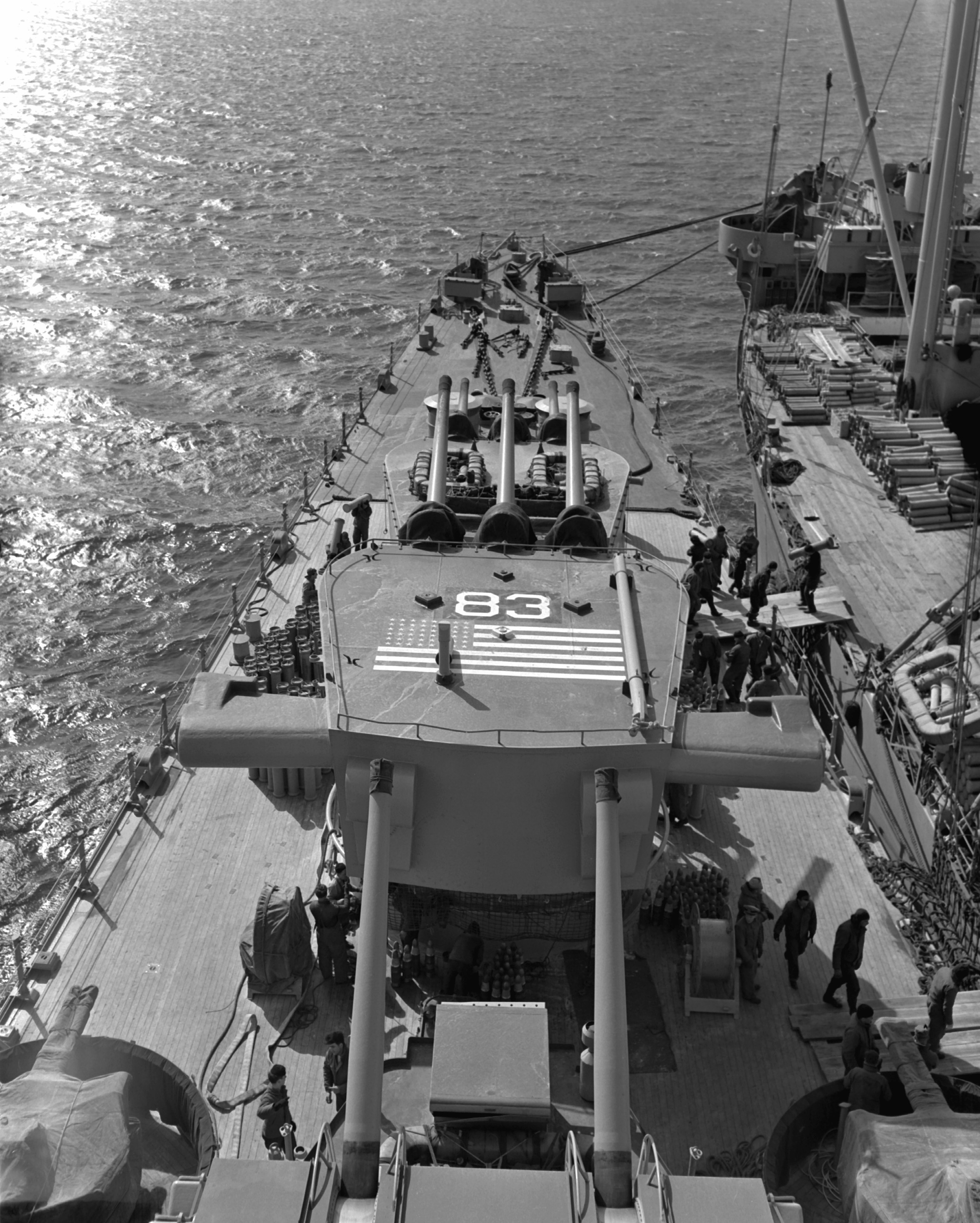 The U.S. light cruiser USS Manchester (CL-83) alongside the ammunition ship USS Mount Katmai (AE-16) at Wonsan harbour, Korea, on 3 May 1951. To save time the re-arming took place within sight of enemy held Wonsan. Rows of projectiles can be seen on deck of Mount Katmai.